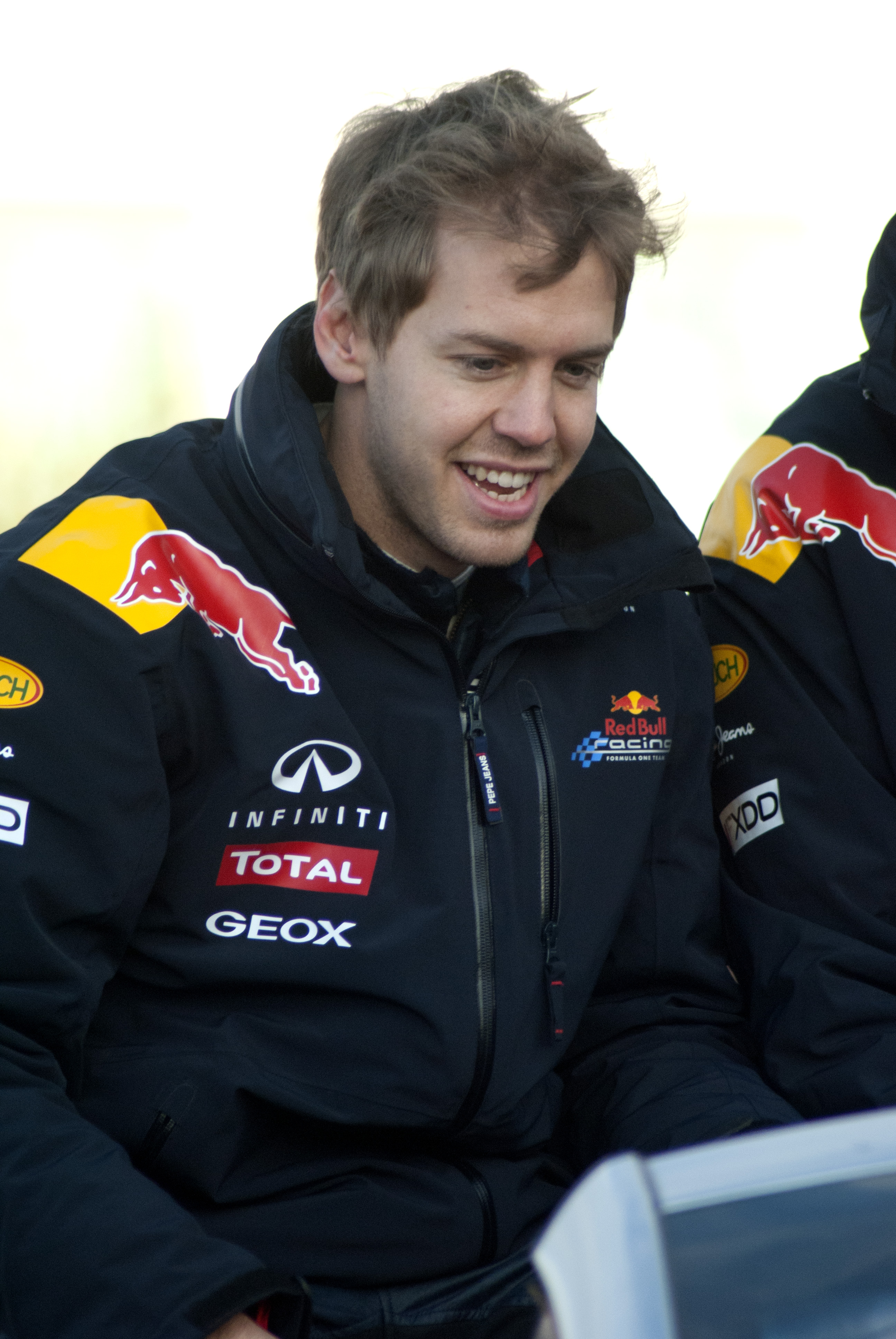 Sebastian Vettel at the 2011 Red Bull Home Run event in Milton Keynes, UK.